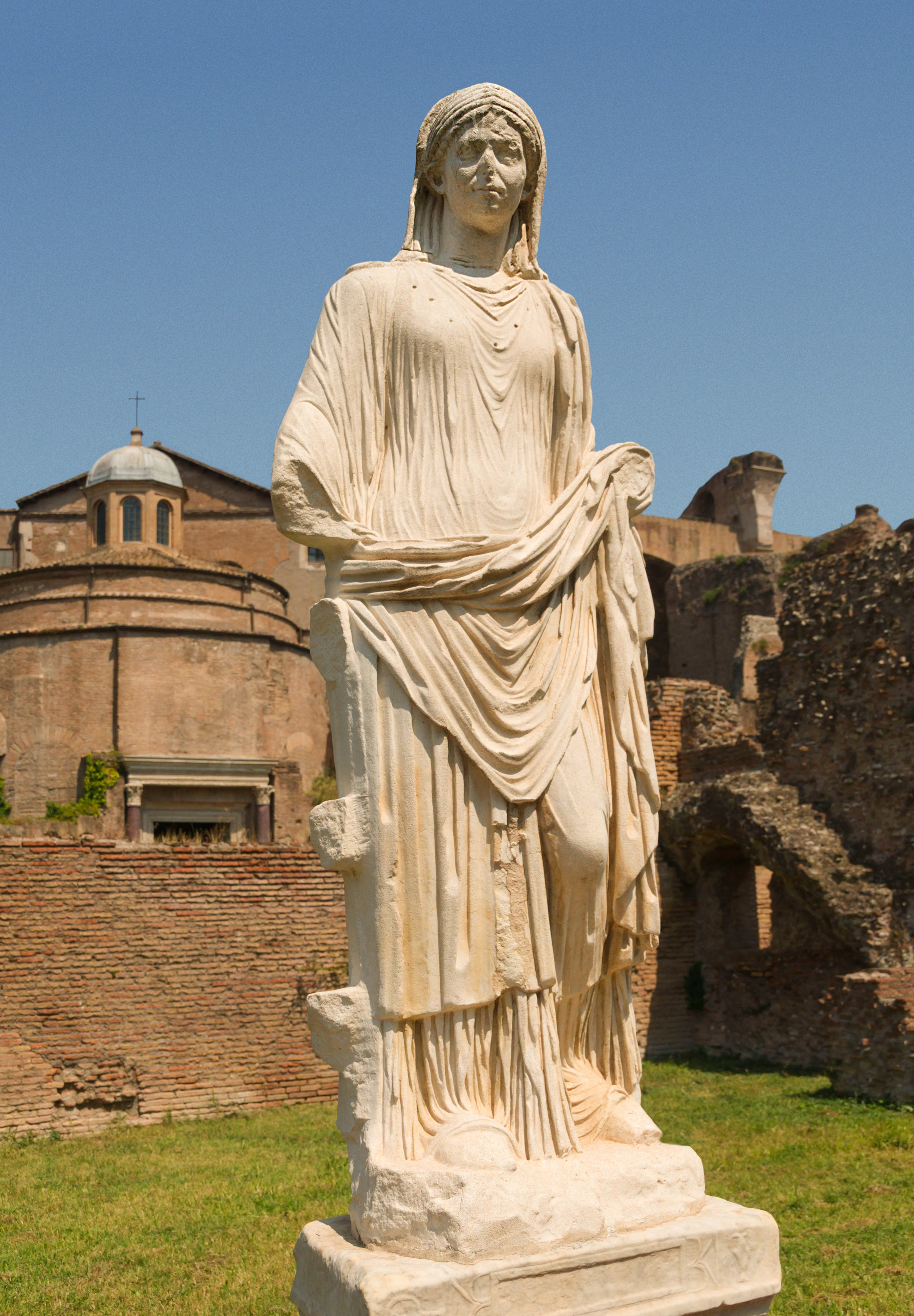 Statue of a Vestal. House of the Vestals, Forum Romanum, Rome, Italy.